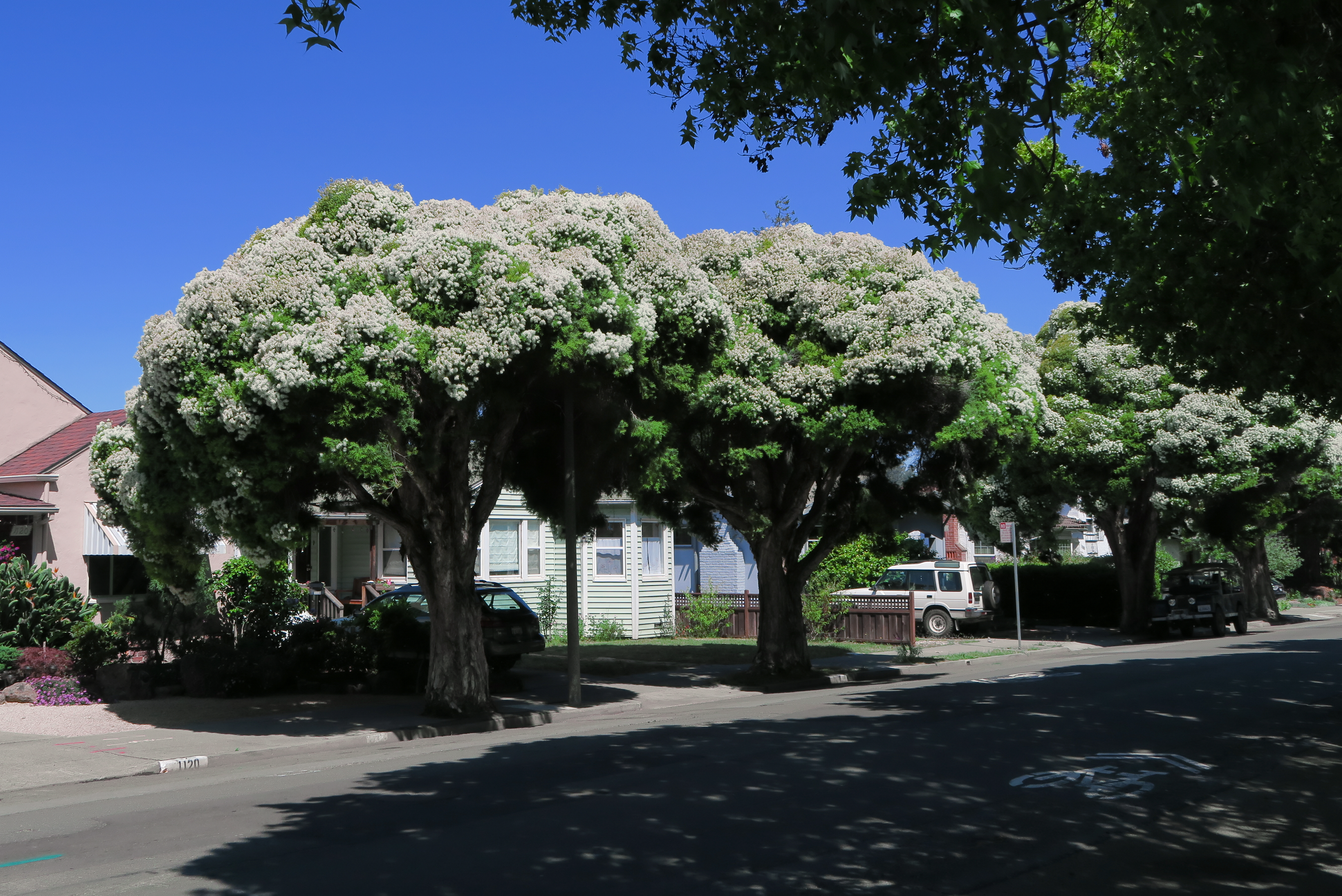 Melaleuca linariifolia—flax-leaved paperbark. Two long blocks along Masonic Avenue in Albany, California are planted with these trees. They are striking in late spring when in bloom. Melaleuca linariifolia is native to New South Wales and Queensland in Australia. The trees are widely planted in their homeland as an ornamental. The picture shows that the species thrives in Albany. Photographed in Albany, CA.